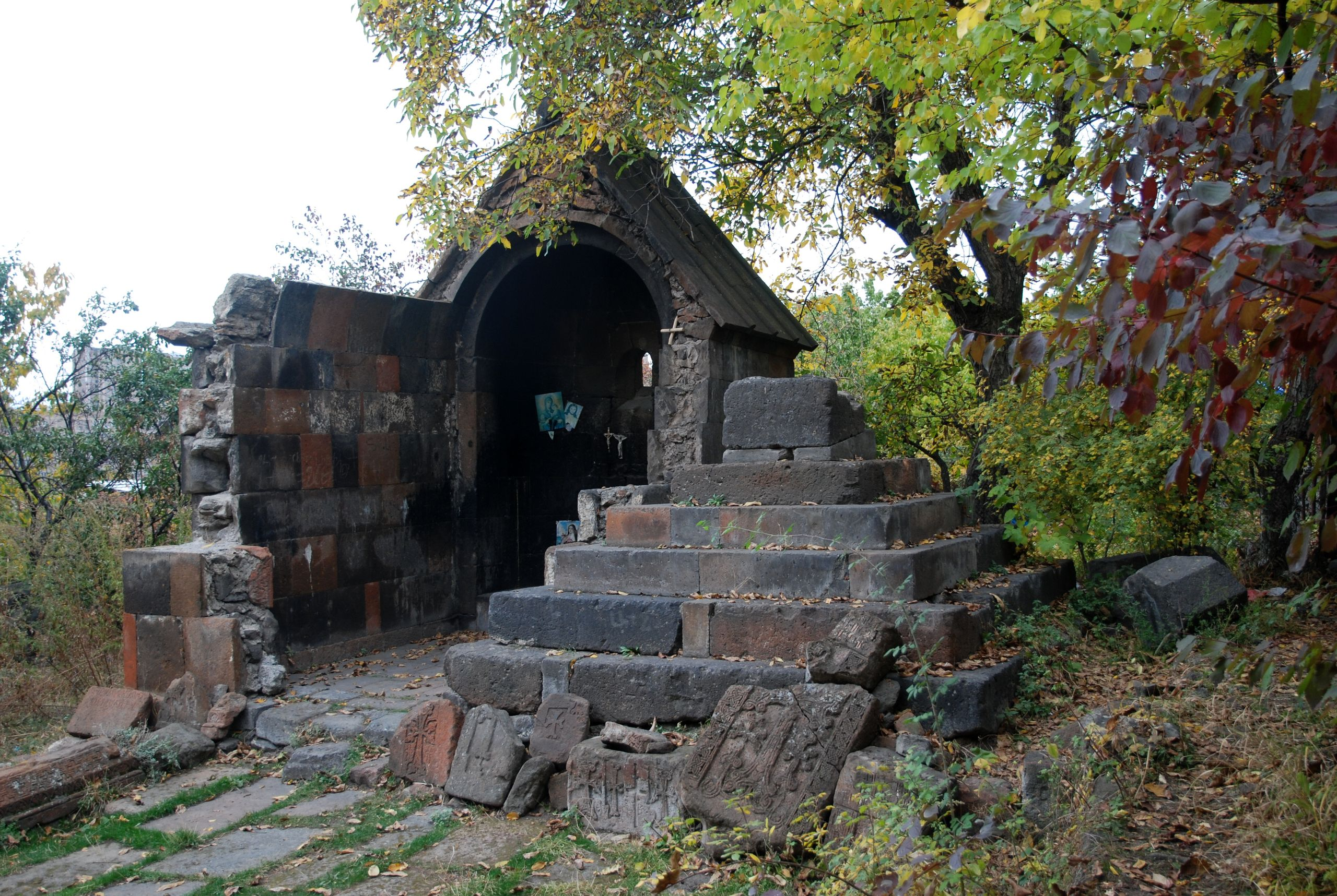 Avan, Surb Astvatsatsin chapel